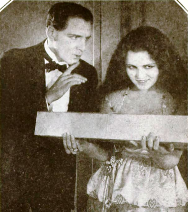 Still from the American silent drama film Risky Business (1920) with Gladys Walton and an unidentified actor, on page 53 of the February 1921 Photoplay magazine.